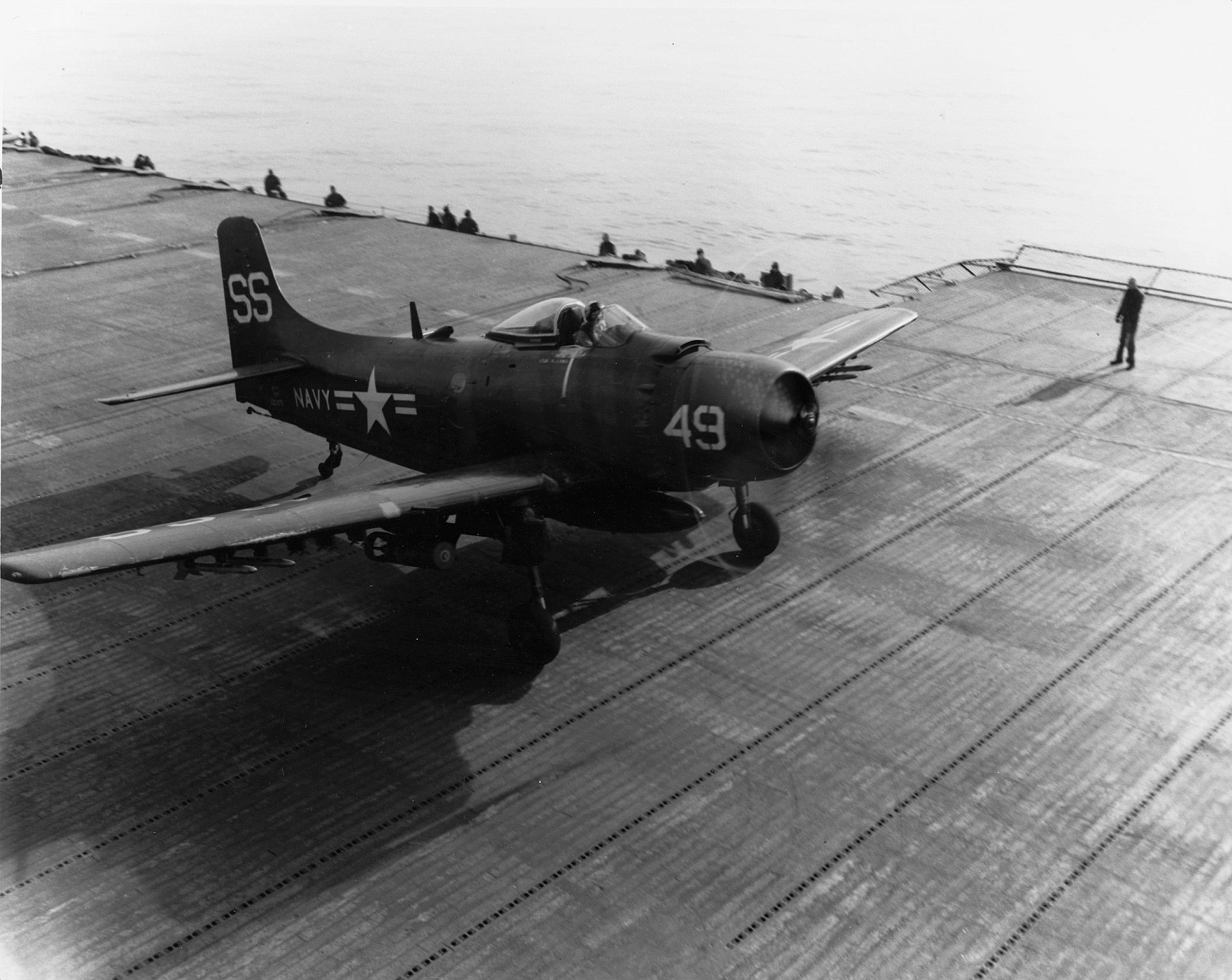 A U.S. Navy Douglas AD-3Q Skyraider from composite squadron VC-33 Avengers taking off from an aircraft carrier in the early 1950s. The aircraft is armed with 12.7 cm rockets and aerial mines.